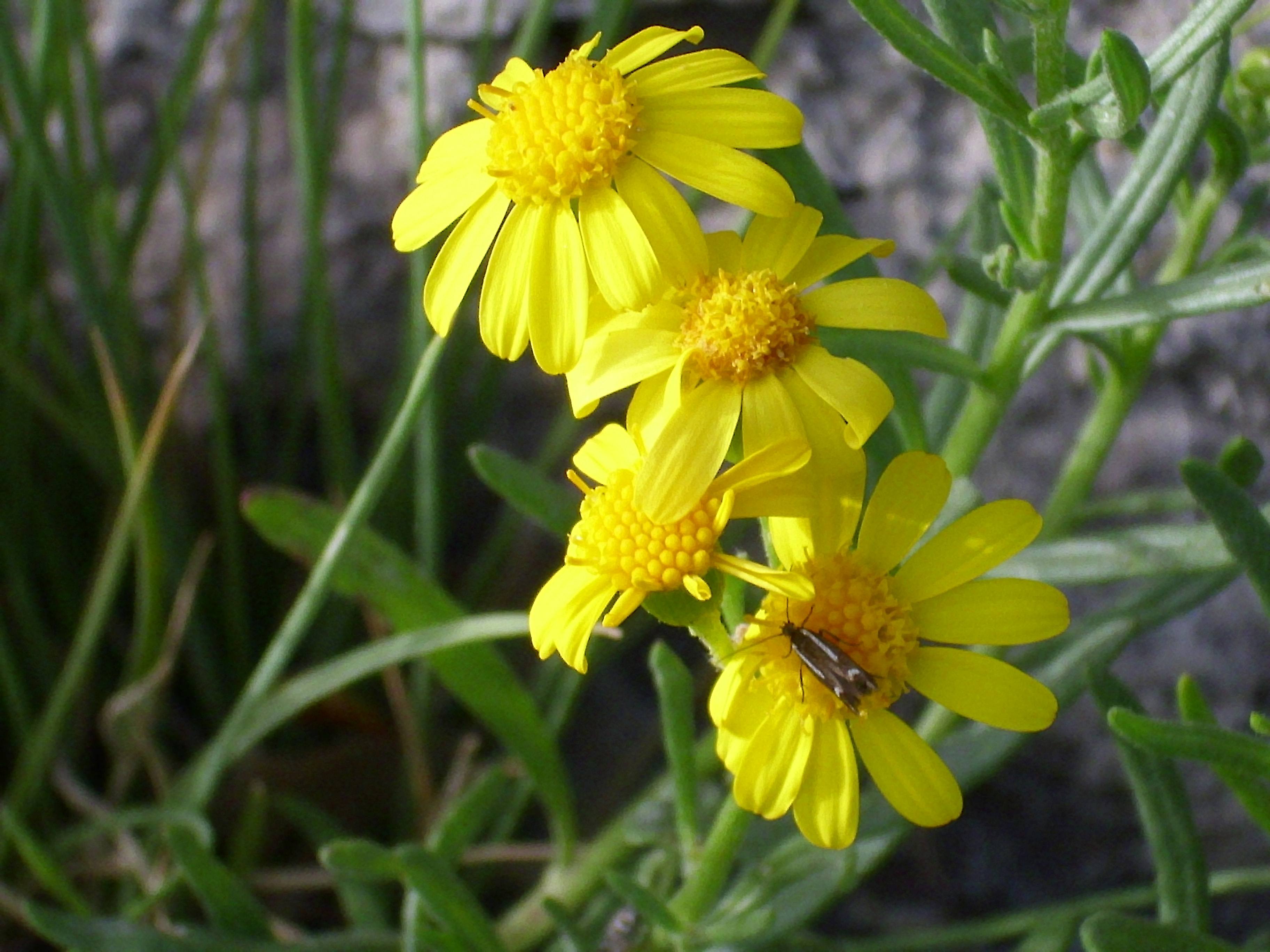 Senecio nevadensis flowers close up, Sierra Nevada, Spain